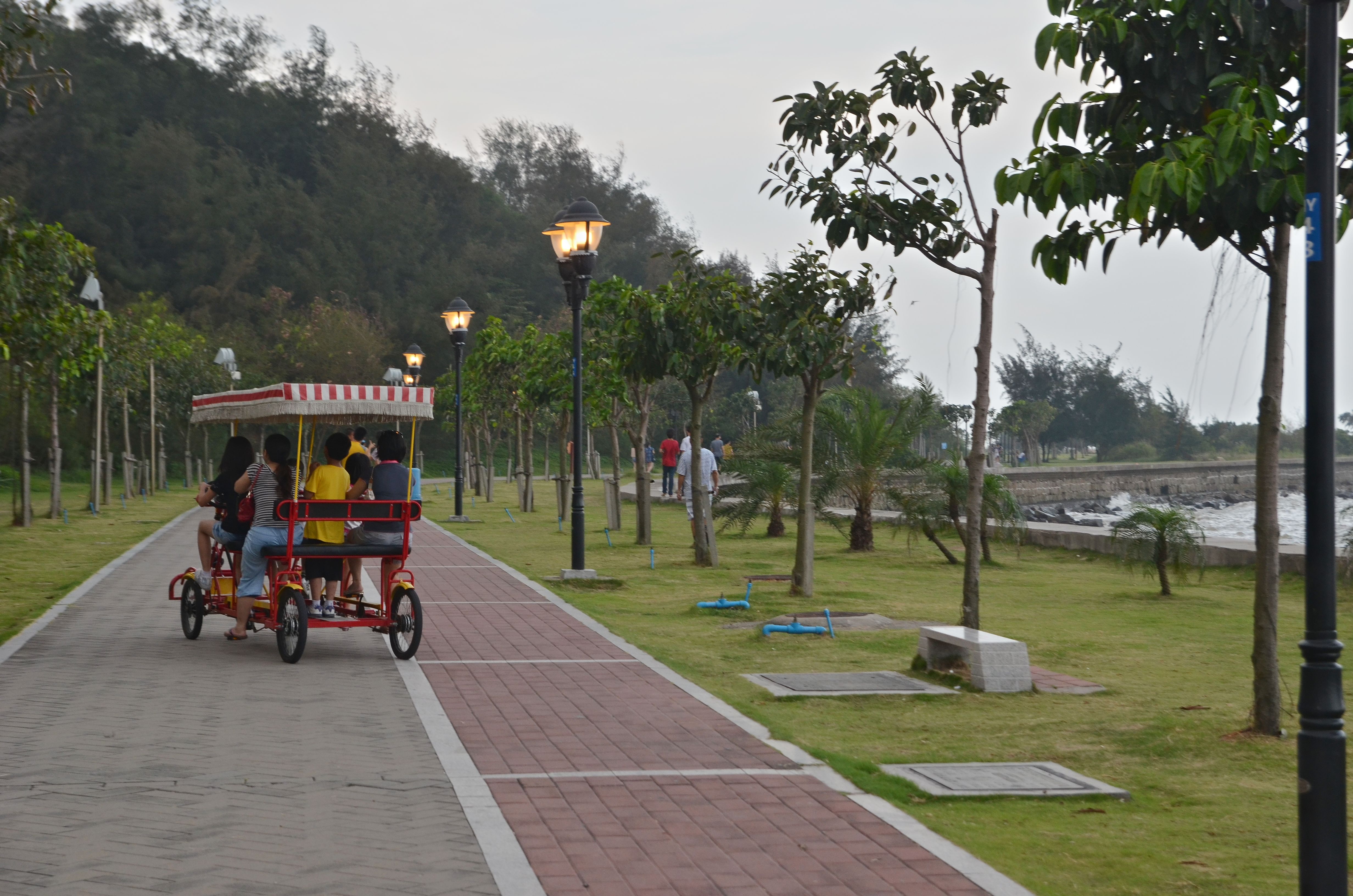 4 or more people pushing a quadricycle rented on Yeli Island, Zhuhai.